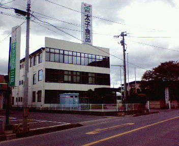 Taishi Food Incorporated Head Office